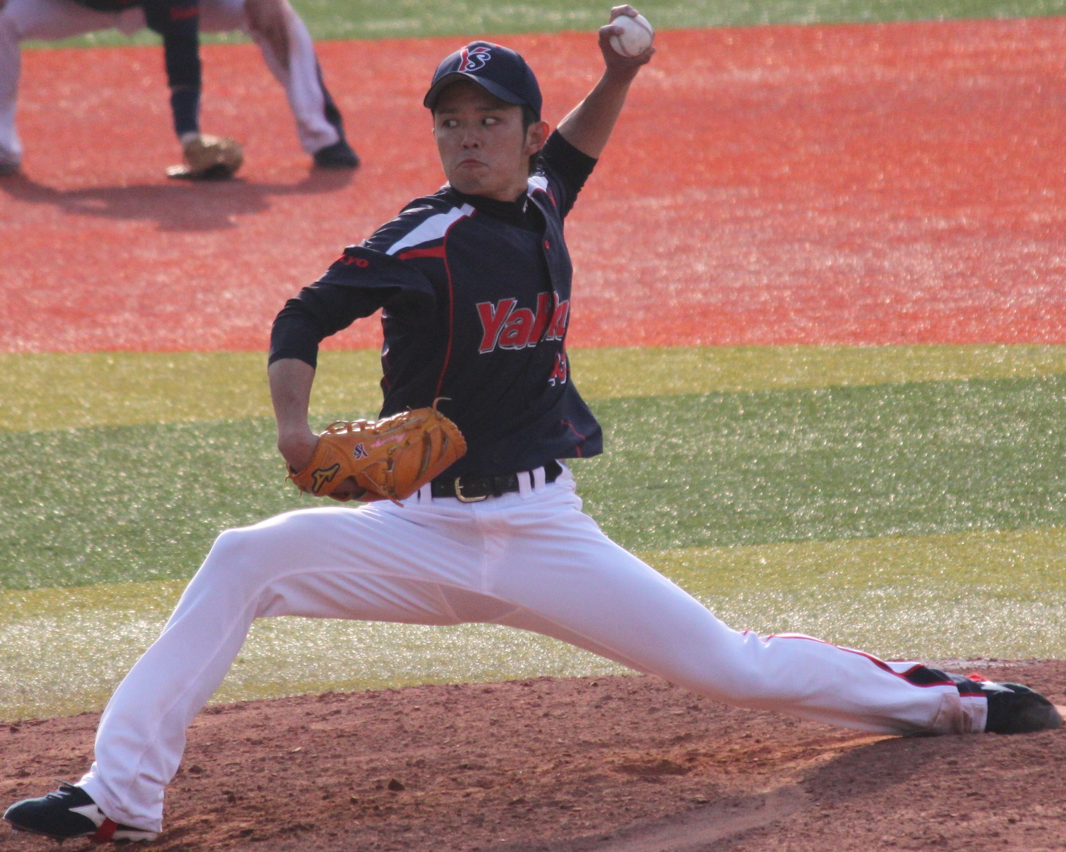 Masaya Emura, pitcher of the Tokyo Yakult Swallows, at Yokohama Stadium.